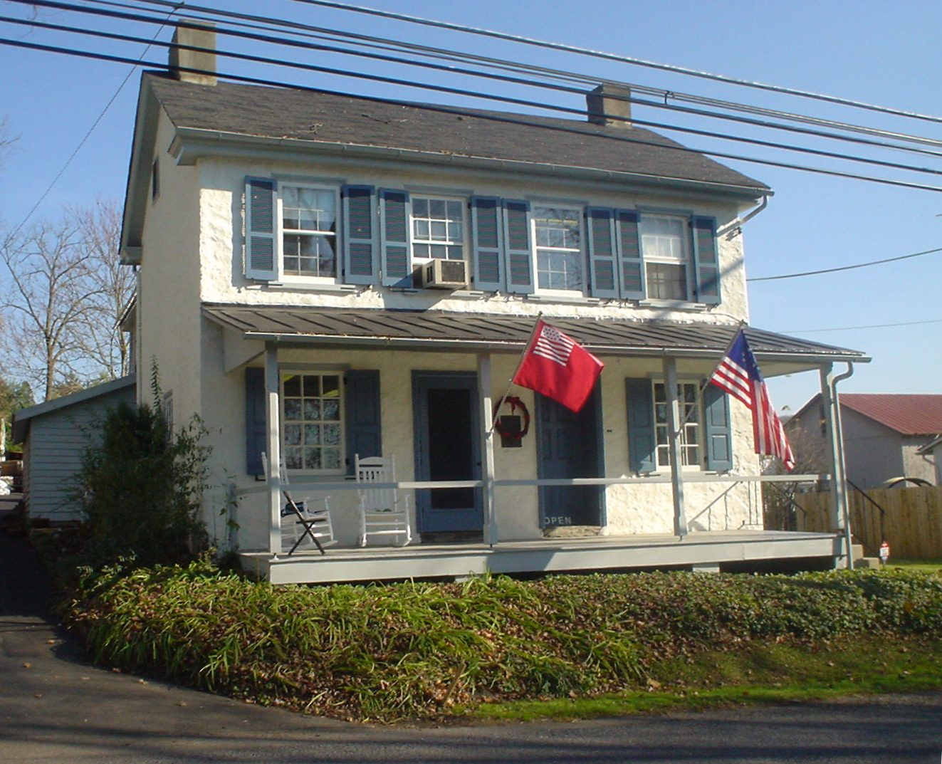 Christian C. Sanderson Museum in Chadds Ford, PA, near corner of US 1 and Creek Road (PA 100).